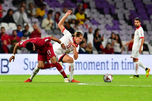 Lebanon's defender George Felix Melki (C) vies for the ball with Qatar's forward Akram Afif (L) during the 2019 AFC Asian Cup group E football match between Qatar and Lebanon at Hazza bin Zayed Stadium in Abu Dhabi on January 9, 2019.